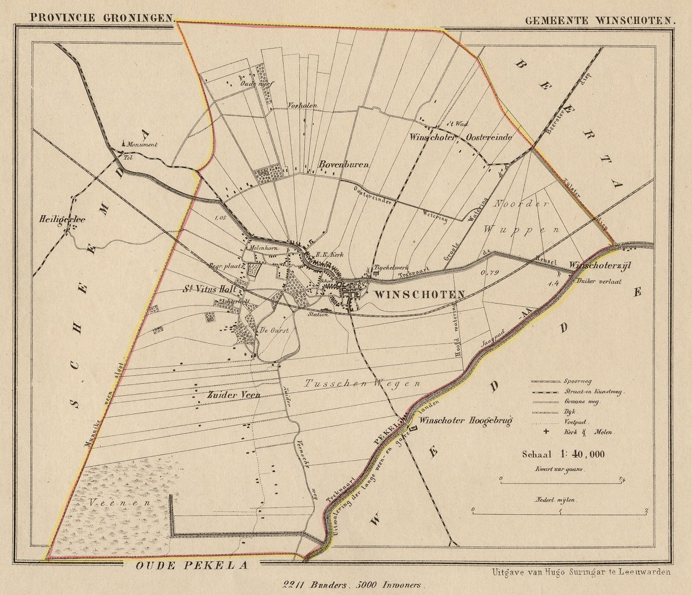 Map from around 1865-1870 of the municipality of Winschoten (Province of Groningen, Netherlands).